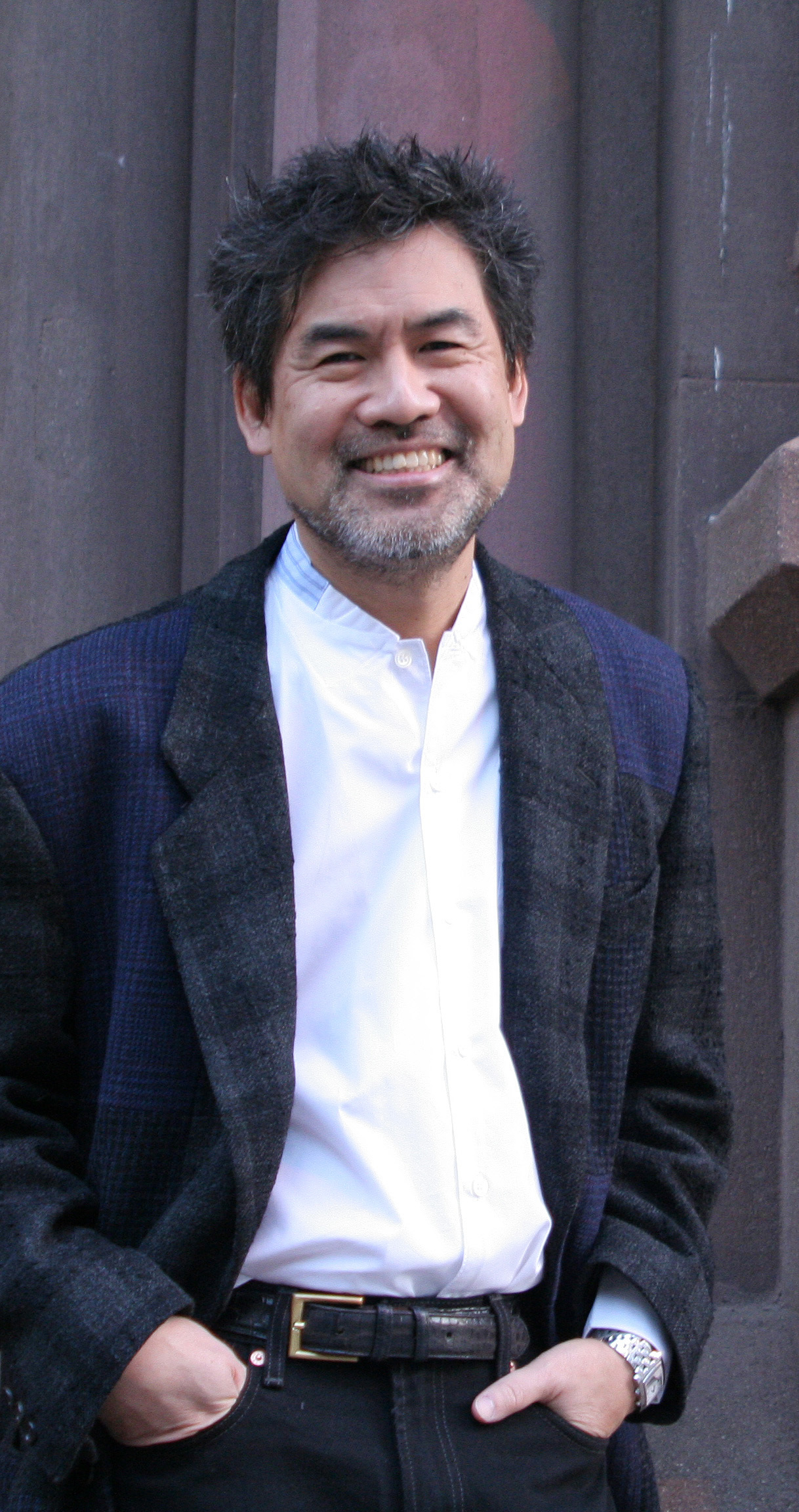 David Henry Hwang at The Public Theater in New York, Photo by Lia Chang